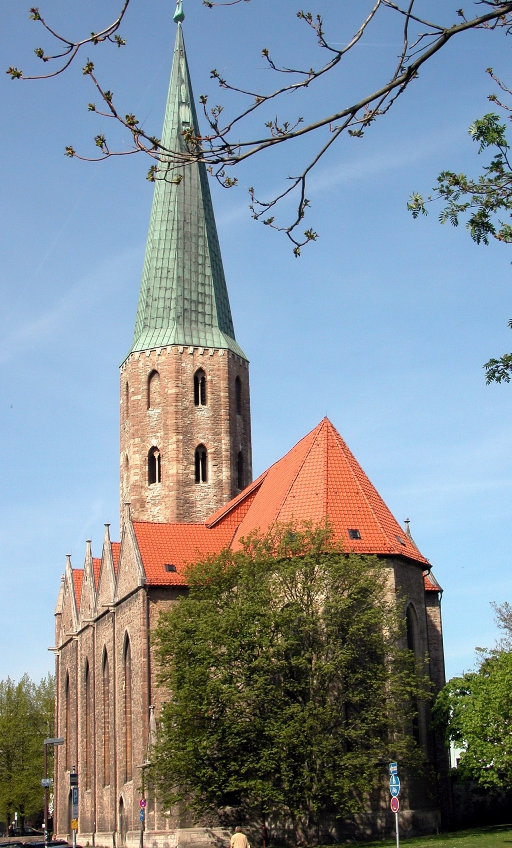 Braunschweig, Germany: St. Peter’s as seen from the East.